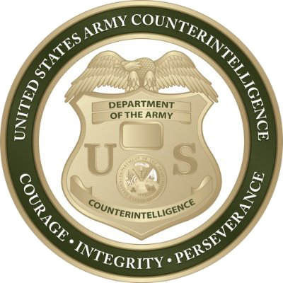 Emblem of the United State Army Counterintelligence.